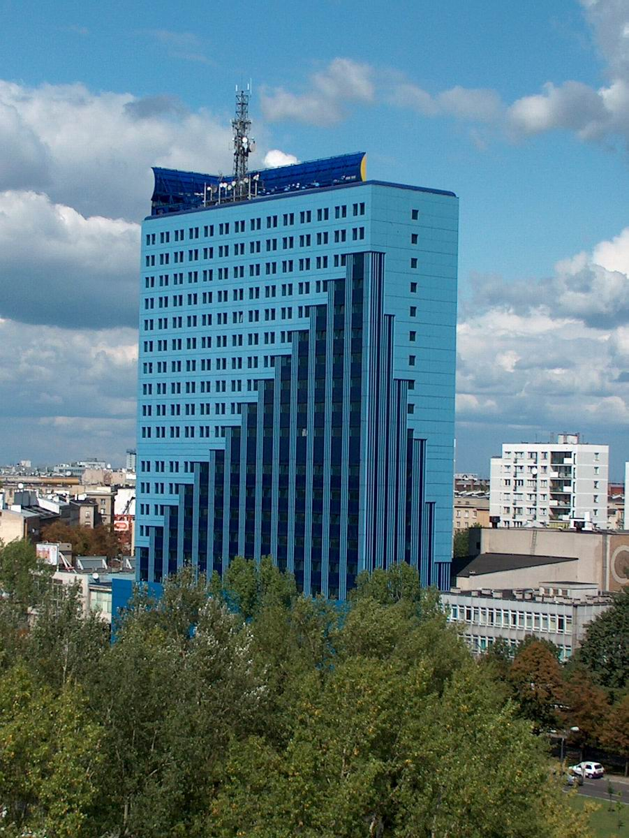 Students hostel Riviera in Warsaw